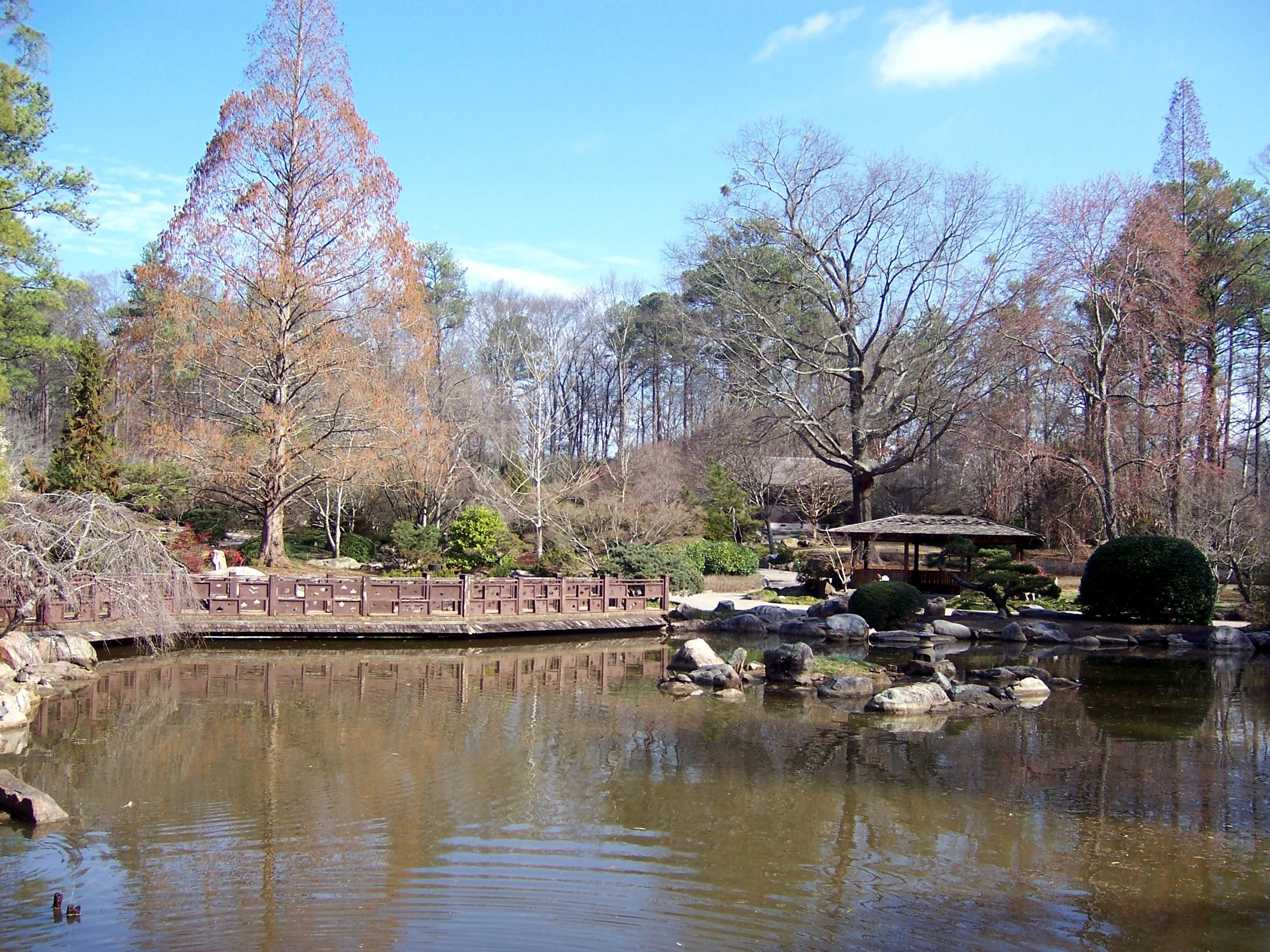 Long Life Lake within the 7.5 acre Japanese Garden at the Birmingham Botanical Gardens in Birmingham, Alabama USA.